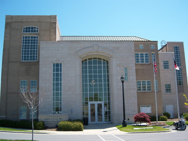 Gastonia City Plaza (West Side)